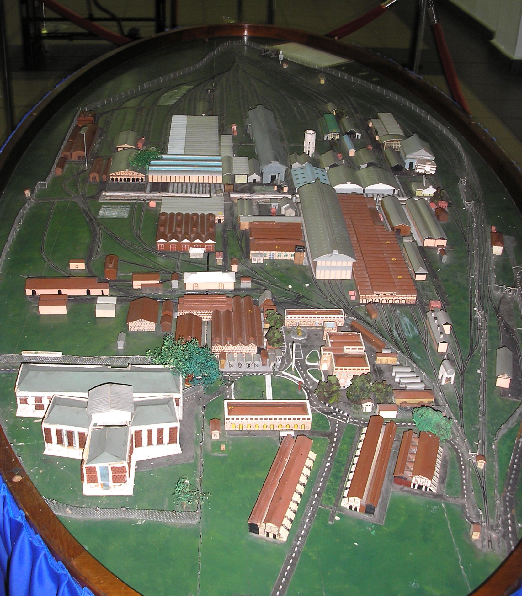 A scale model of the Sentul Works railway depot circa 1973, in the Kuala Lumpur Railway station, Kuala Lumpur, Malaysia. The model is viewed in a northward angle relative to the actual depot grounds in Sentul. An estimated half of the real Sentul Works buildings represented in the model were disused as railroad facilities or have been demolished, as of September 2007.